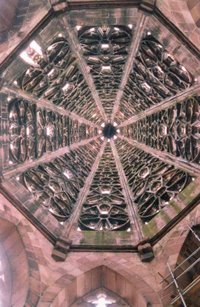 Freiburg Minster Octogonal spire of west tower